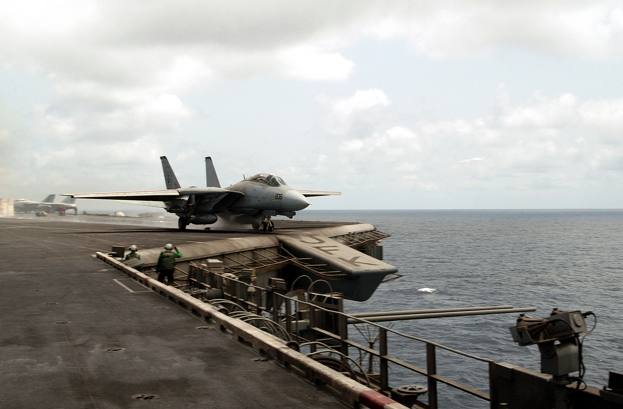 At sea aboard USS John F. Kennedy (CV 67) Jun. 15, 2002 -- An F-14B “Tomcat” from the"Red Rippers" of Fighter/Air Interdiction One One (VF-11) launches from the flightdeck of the USS John F. Kennedy. The Kennedy and her embarked Carrier Air Wing Seven (CVW 7) are conducting combat missions in support of Operation Enduring Freedom. U.S. Navy photo by Photographer’s Mate 1st Class Jim Hampshire. (RELEASED)